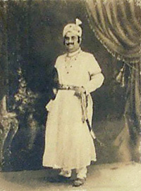 Maharaja Nandakumar, Calcutta